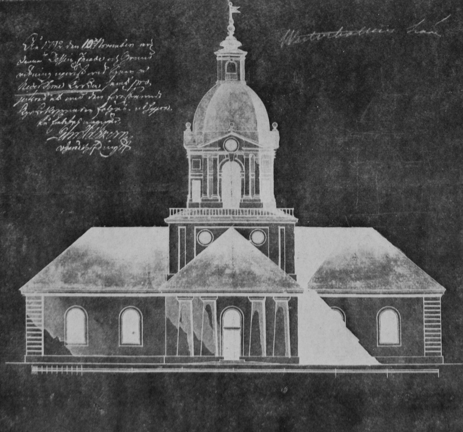 Jacob Rijf's drawing for Alatornio church in 1792.